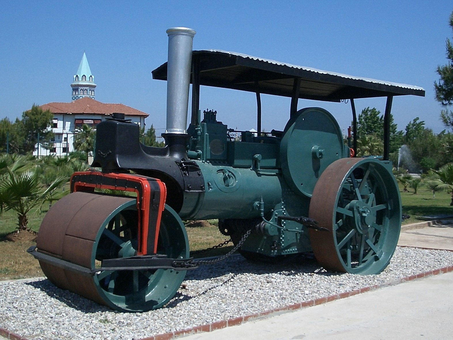 Steam roller Aveling and Porter, about 1902, left side